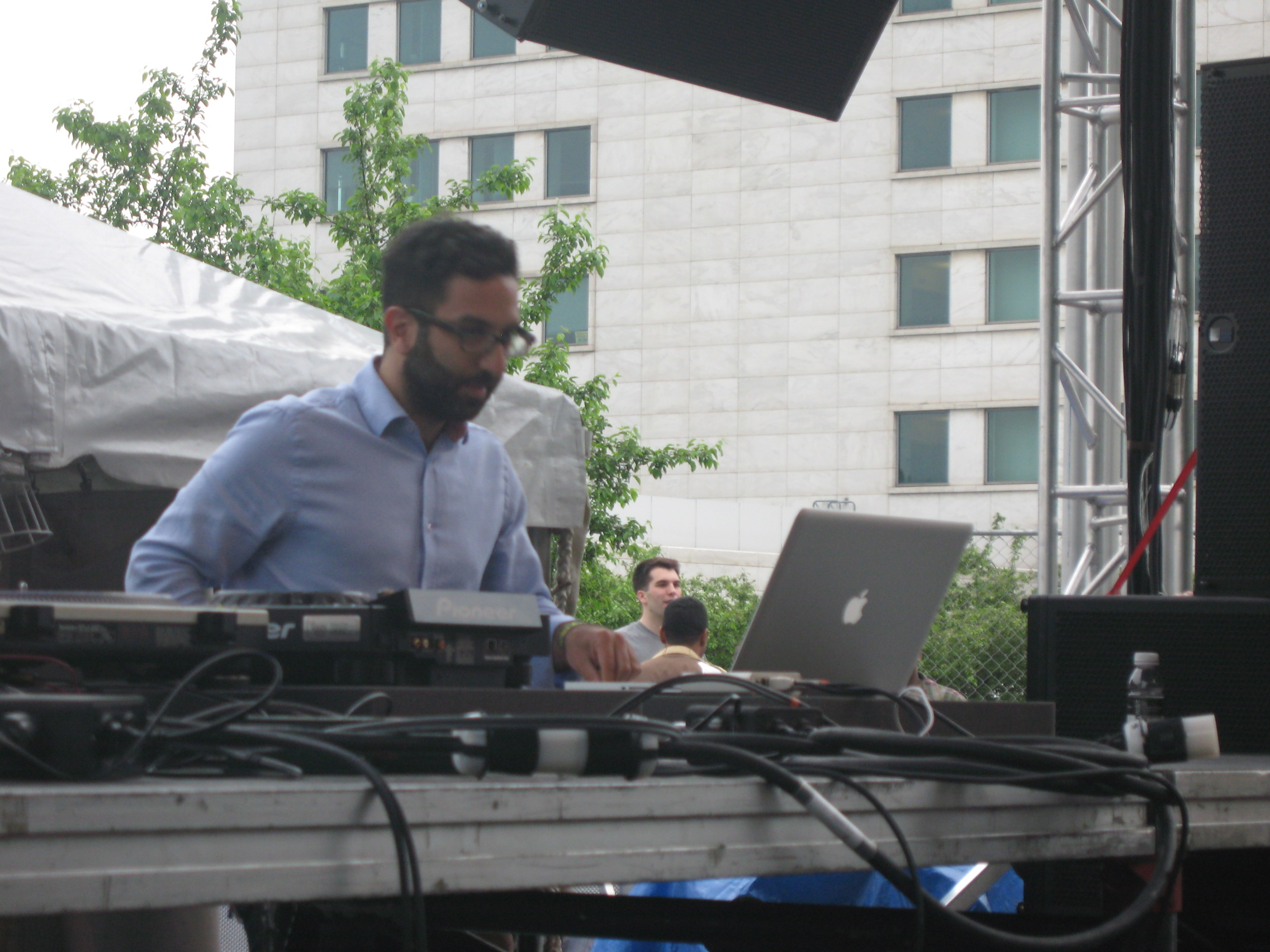 Assyrian Techno musician Aril Brikha performing at Detroit Detroit Electronic Music Festival in May 2011.